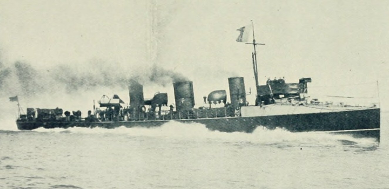 Photograph of HMS Viper(1899). This viper class torpedo boat destroyer was a trial design for the newly invented steam turbines.